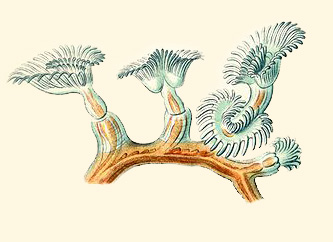 Plumatella repens ; drawing from Haeckel Bryozoa drawing (1904)